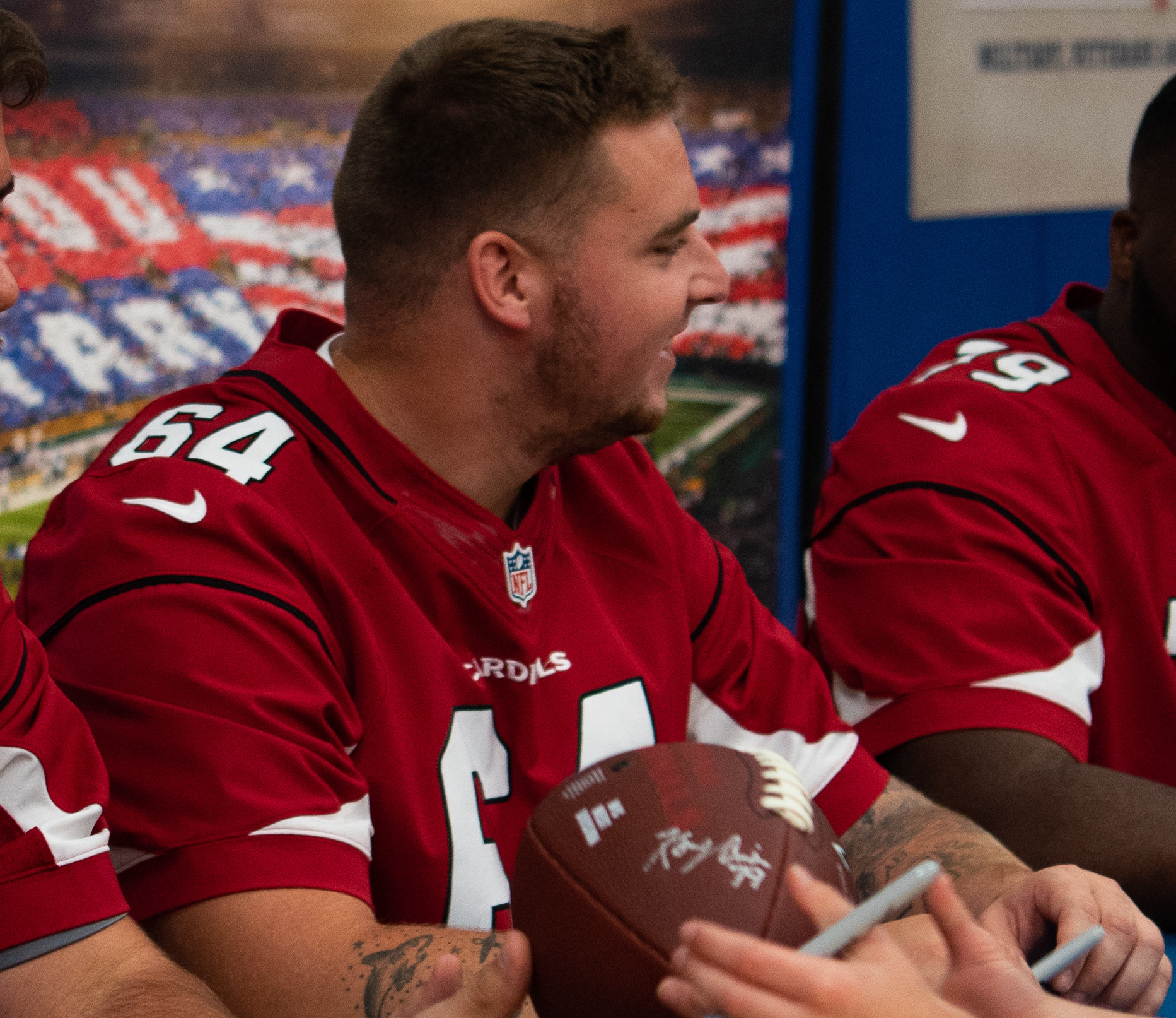 Justin Pugh, Arizona Cardinal offensive lineman, signs a football for a boy during a meet-and- greet Nov. 6, 2018 at Luke Air Force Base, Ariz. Pugh interacted with Airmen and their families from across the base to show support for troops as part of the Cardinals Salute to Service campaign. (U.S. Air Force photo by Airman 1st Class Aspen Reid)